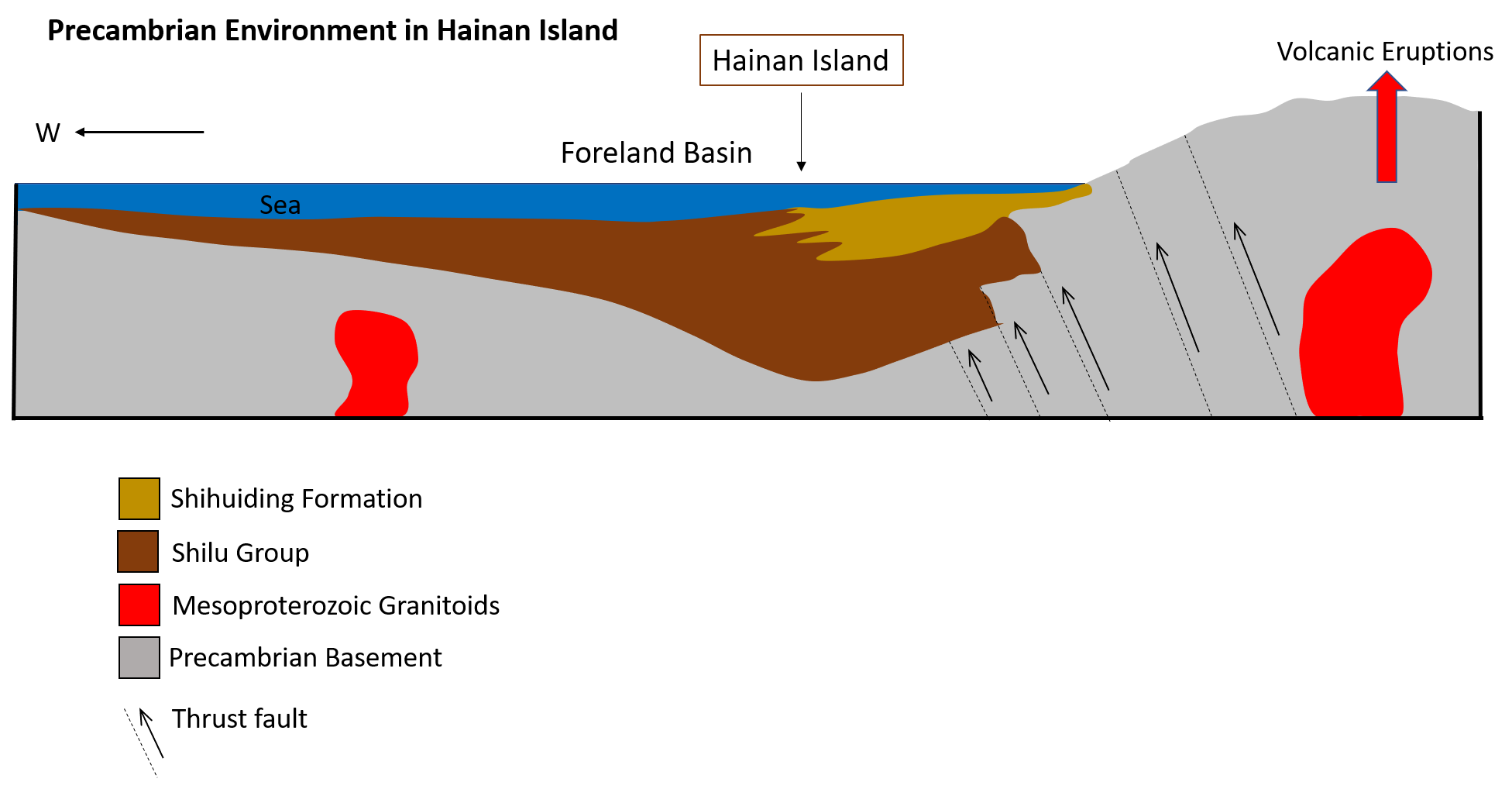 Precambrian geological setting of Hainan Island